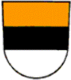 Blazon of Flums, Canton of St. Gallen